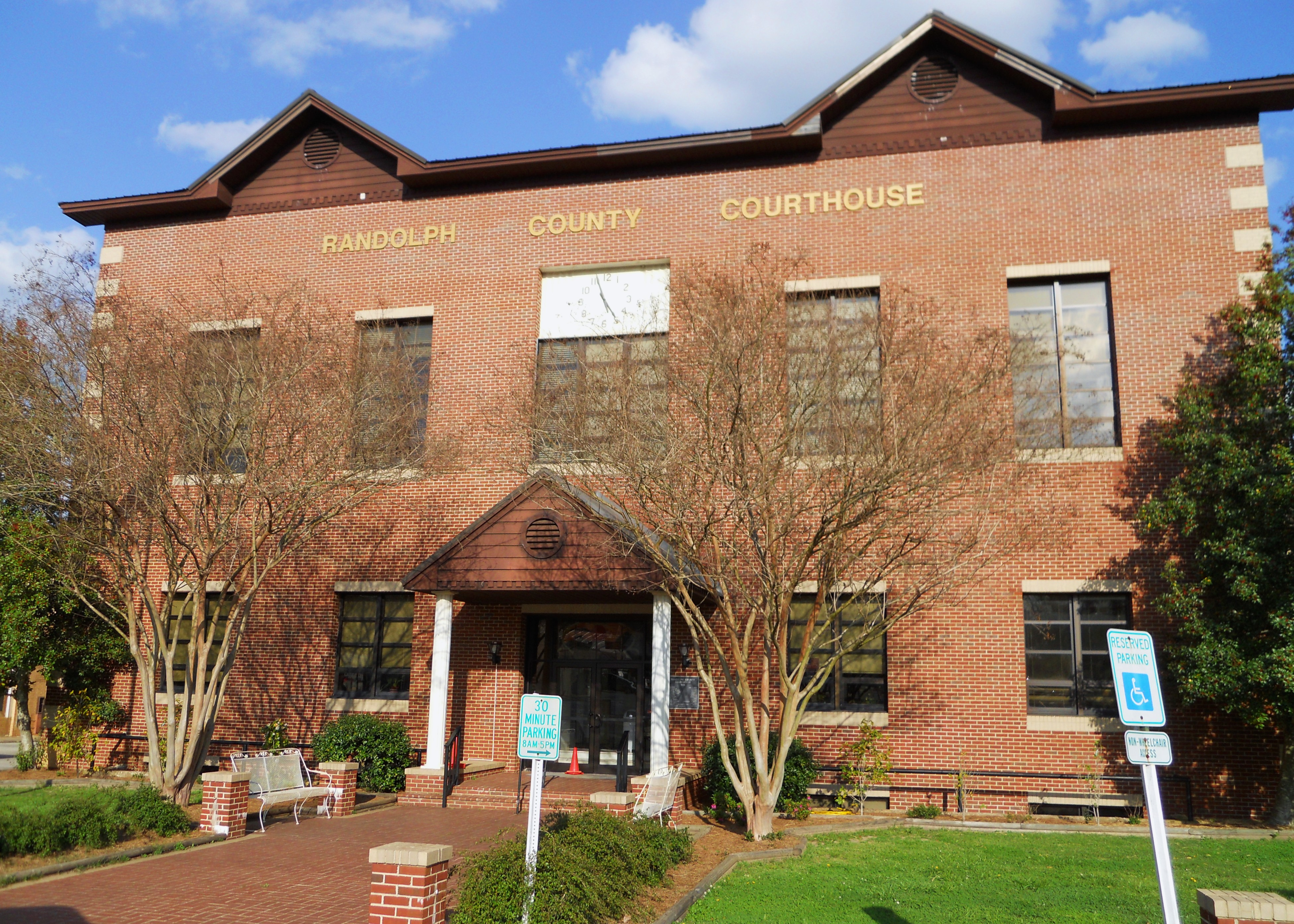 This is a photograph of the Randolph County Courthouse located in Wedowee, Alabama.